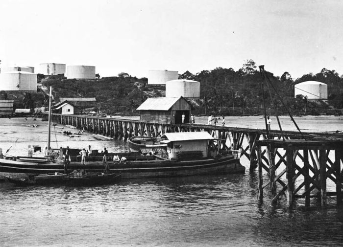 Pier and oiltanks of the BPM at Pulau Tarakan